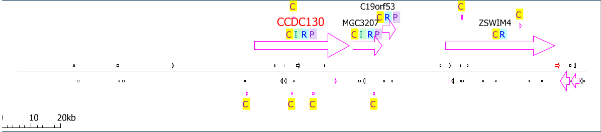 A diagram showing the CCDC130 locus on chromosome 19 along with genes upstream and downstream from it.